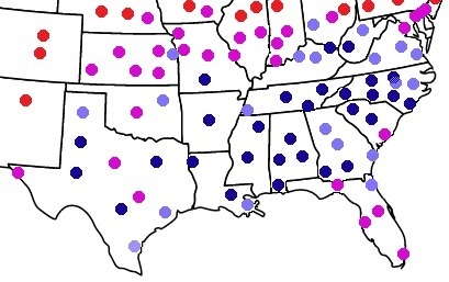 This map shows Southern American English and Midland American English, according to the Atlas of North American English's (Labov et al., 2006) "Southern dialect levels" and "Southeastern super-region" (pp. 131, 139). Dark blue dots are cities with high-level Southern dialect, light blue are low-level Southern dialect, purple are Midland dialect, and red are outside the Southeastern super-region.